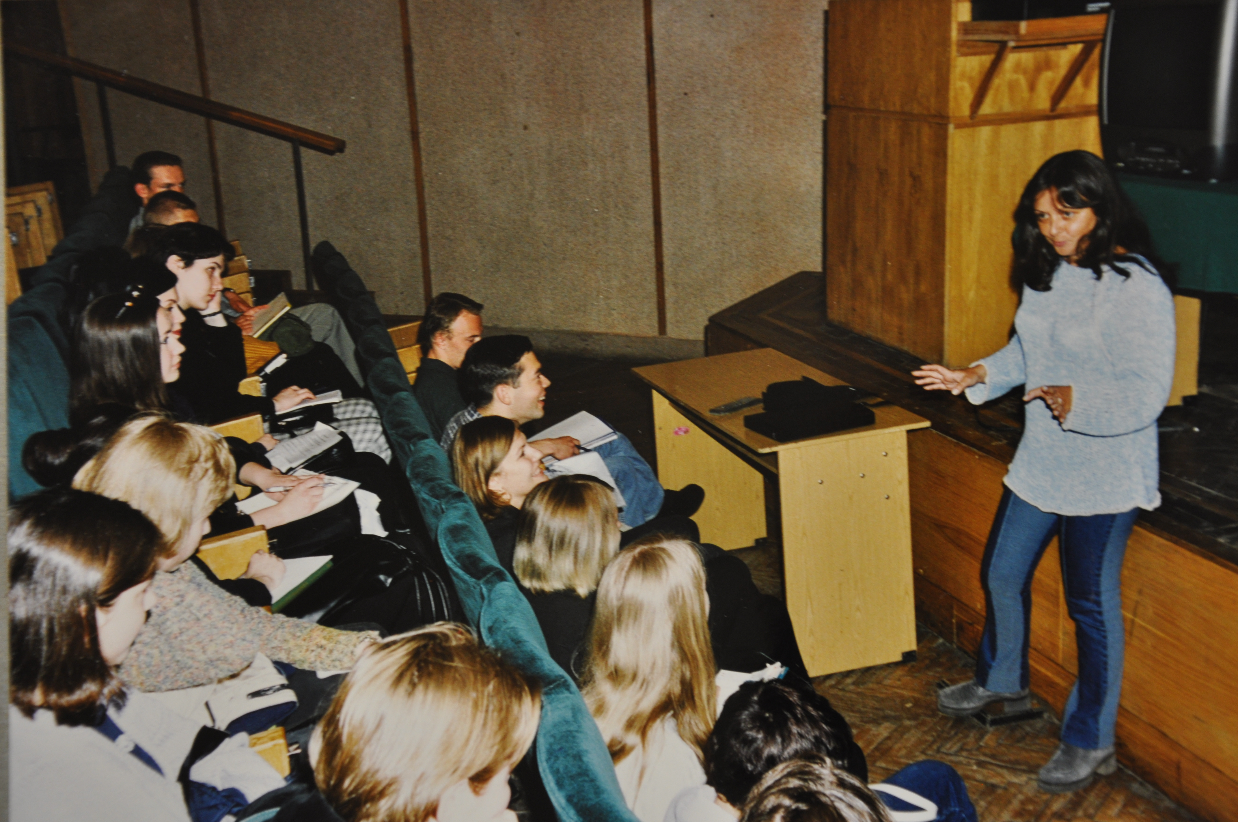 Кupreychenko A.B. and students